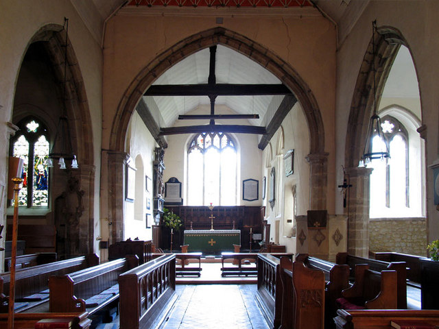 St Peter & St Paul, Yalding, Kent - East end